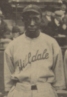 Otto Briggs at the 1924 Colored World Series. LOC states here that there are no restrictions on use of this image, therefore it is PD. This file has been extracted from another file: 1924 Negro League World Series.jpg